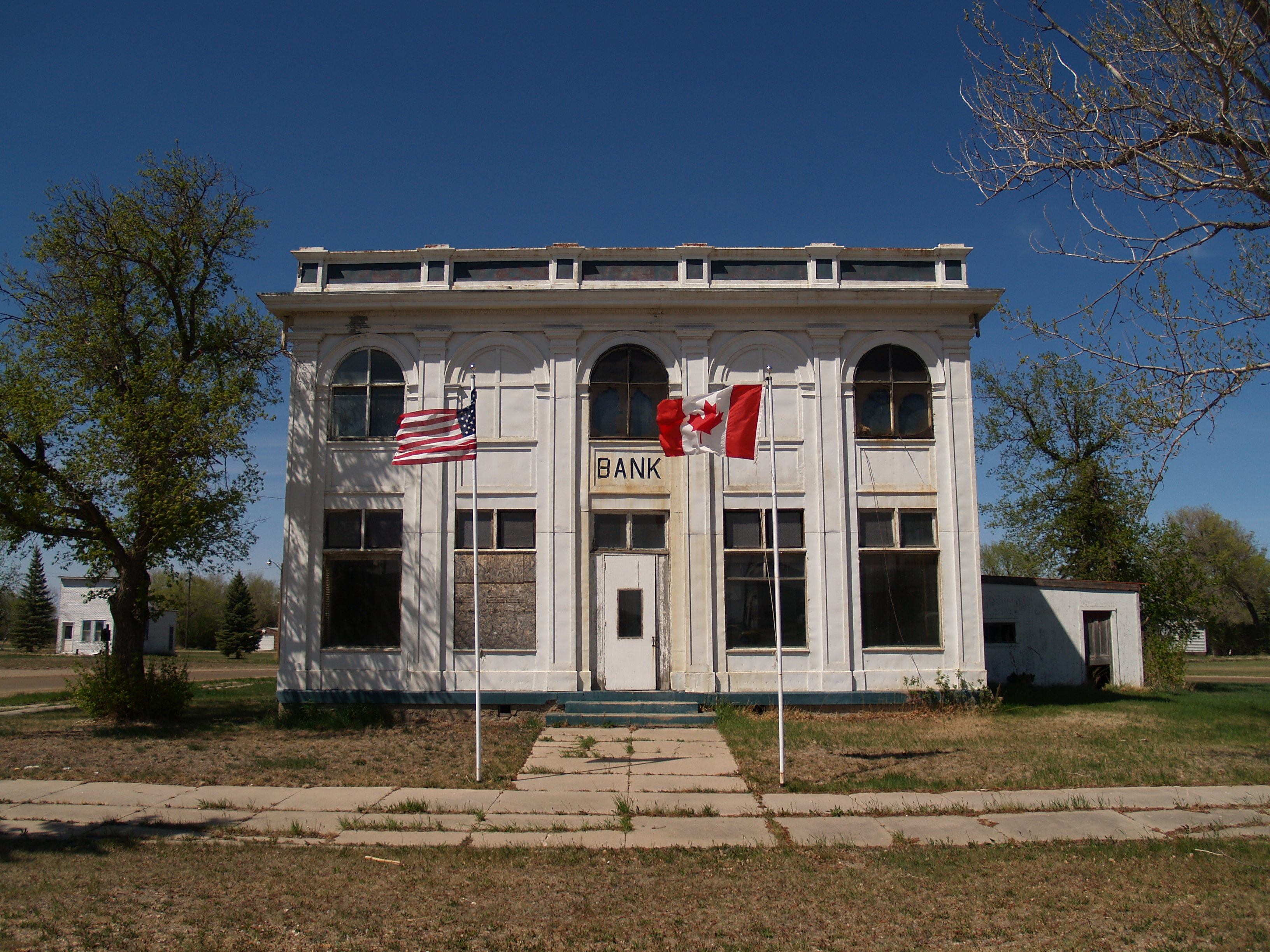 2nd view of the customs house in Antler, North Dakota showing U.S. and Canadian flags.